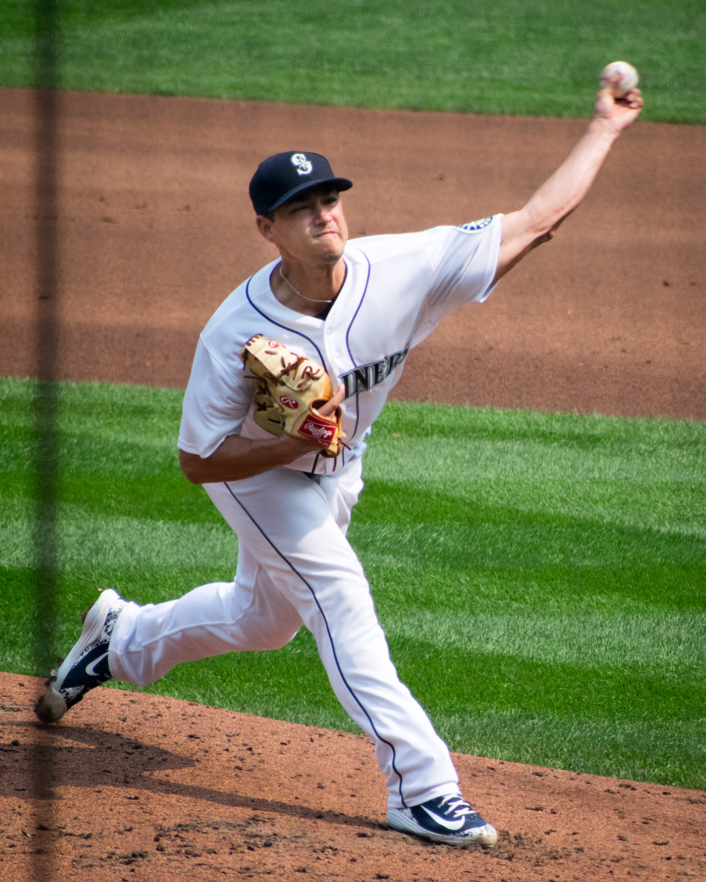 Seattle Mariners pitcher Marco Gonzales throwing against the Houston Astros on August 22, 2018.